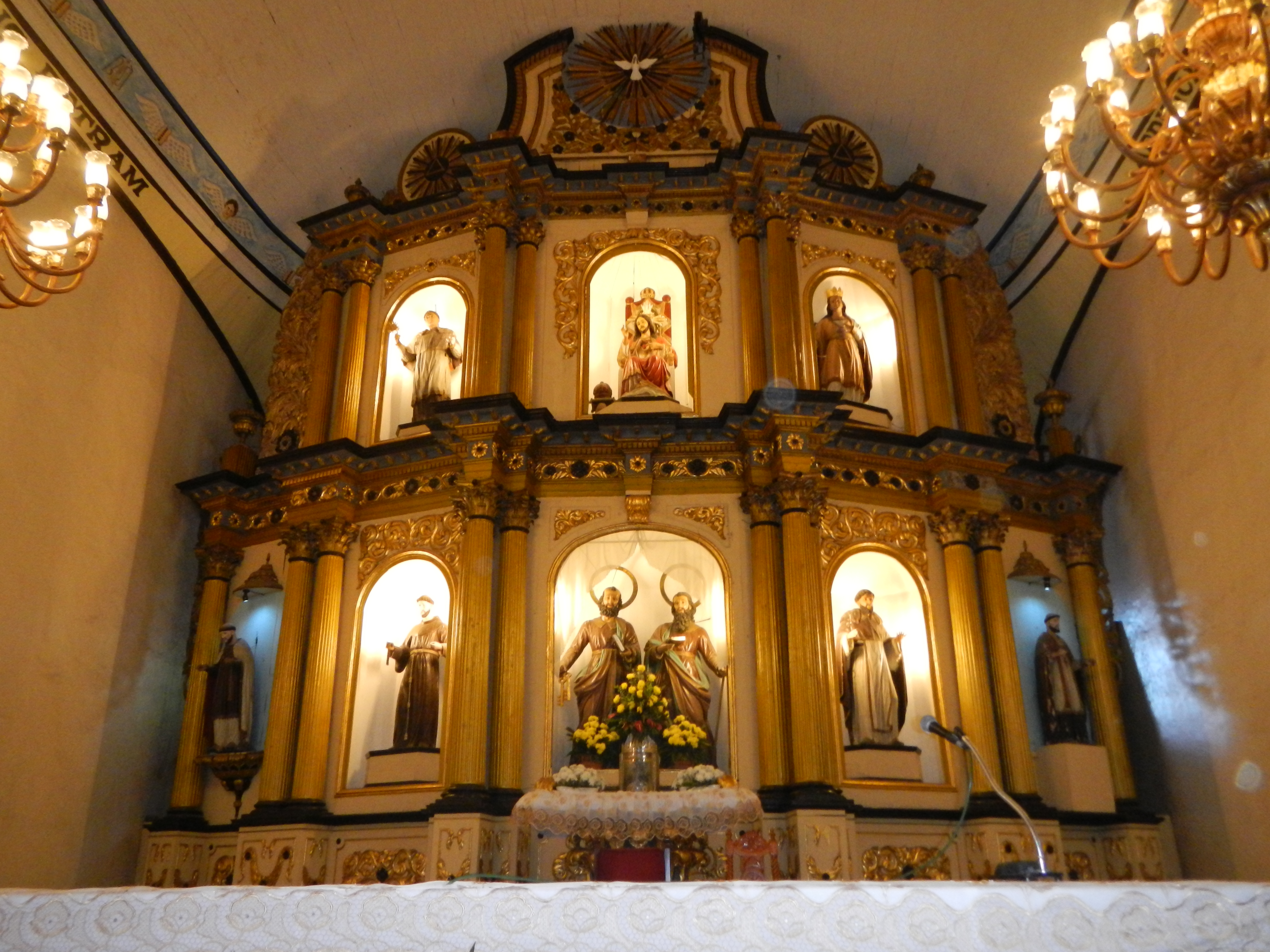 Sts. Peter and Paul Parish Church The Vicariate I:Queen of the Apostles, Roman Catholic Archdiocese of Lingayen-Dagupan Calasiao, Pangasinan[1][2][3]